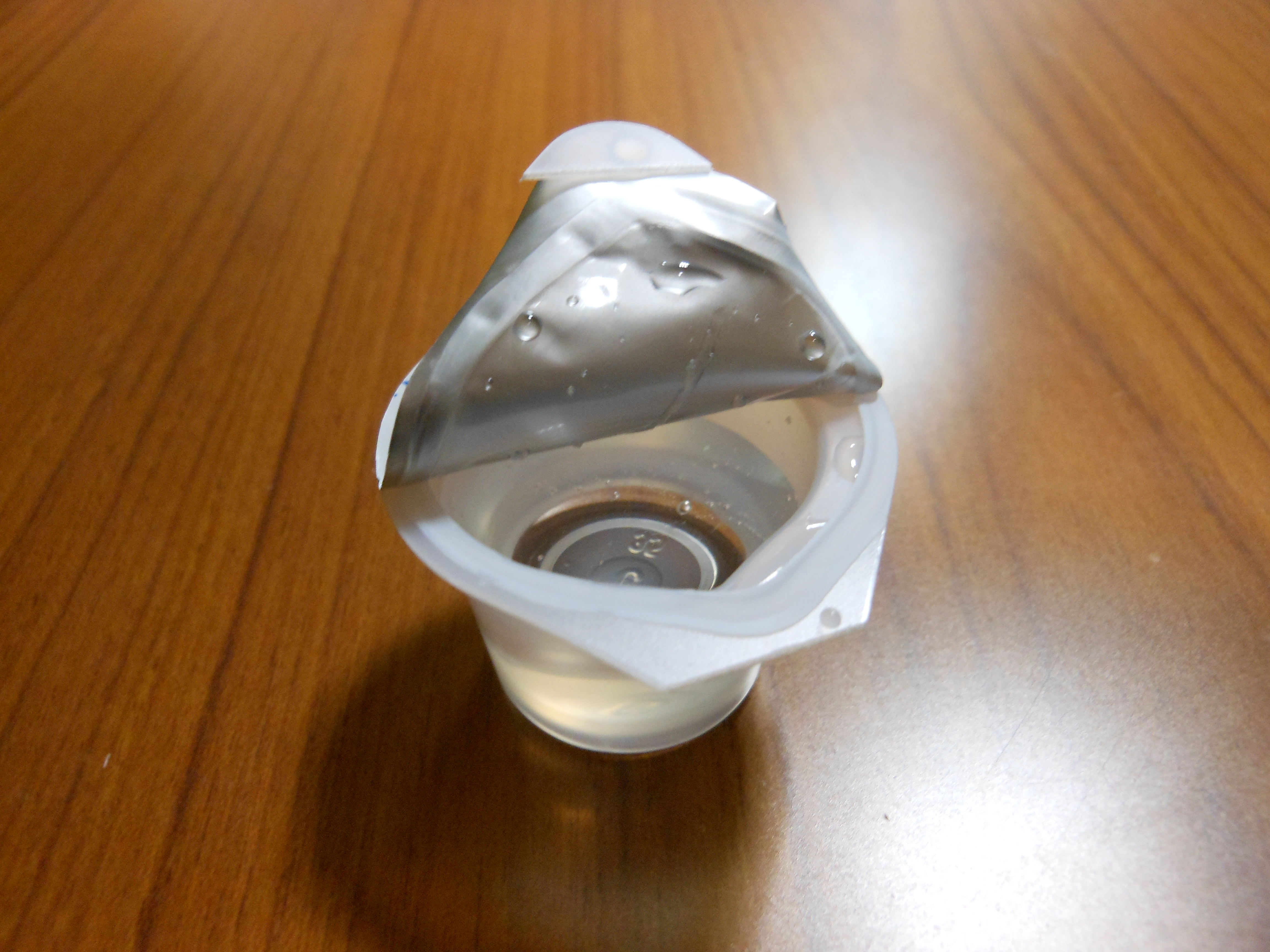 This is gum syrup in a cup.